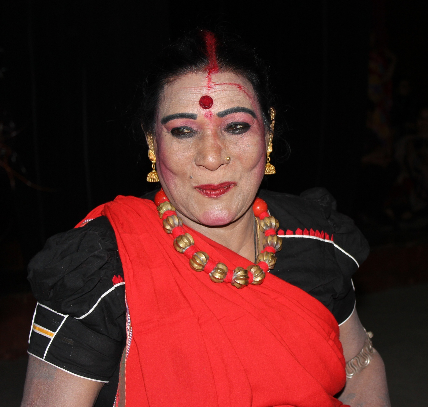 Teejan Bai after performnce at Bharat Bhawan Bhopal